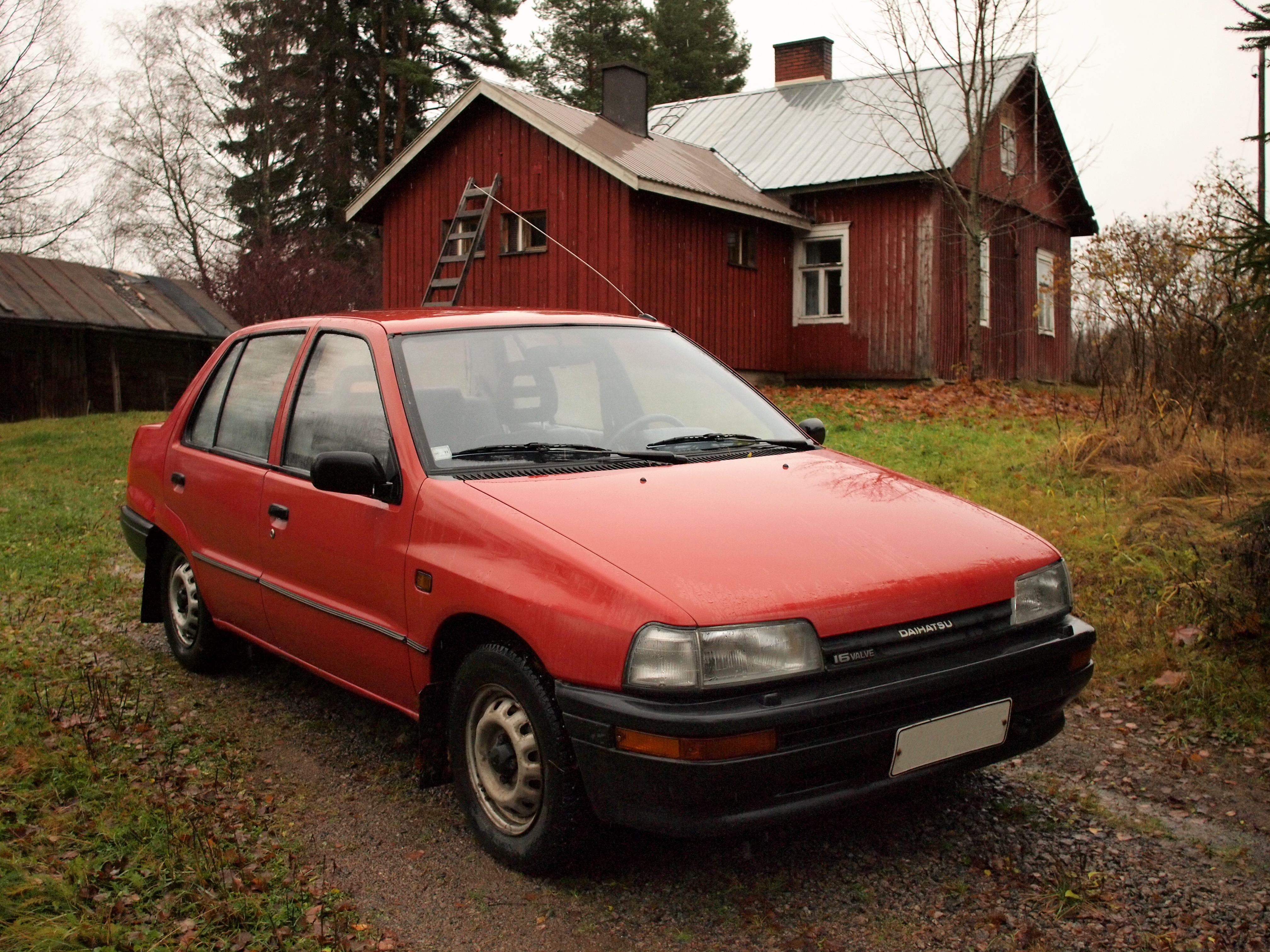 Daihatsu Charade SG 1991. Equipped with the 16-valve 1.3-litre engine. Photographed in Savitaipale, Finland.